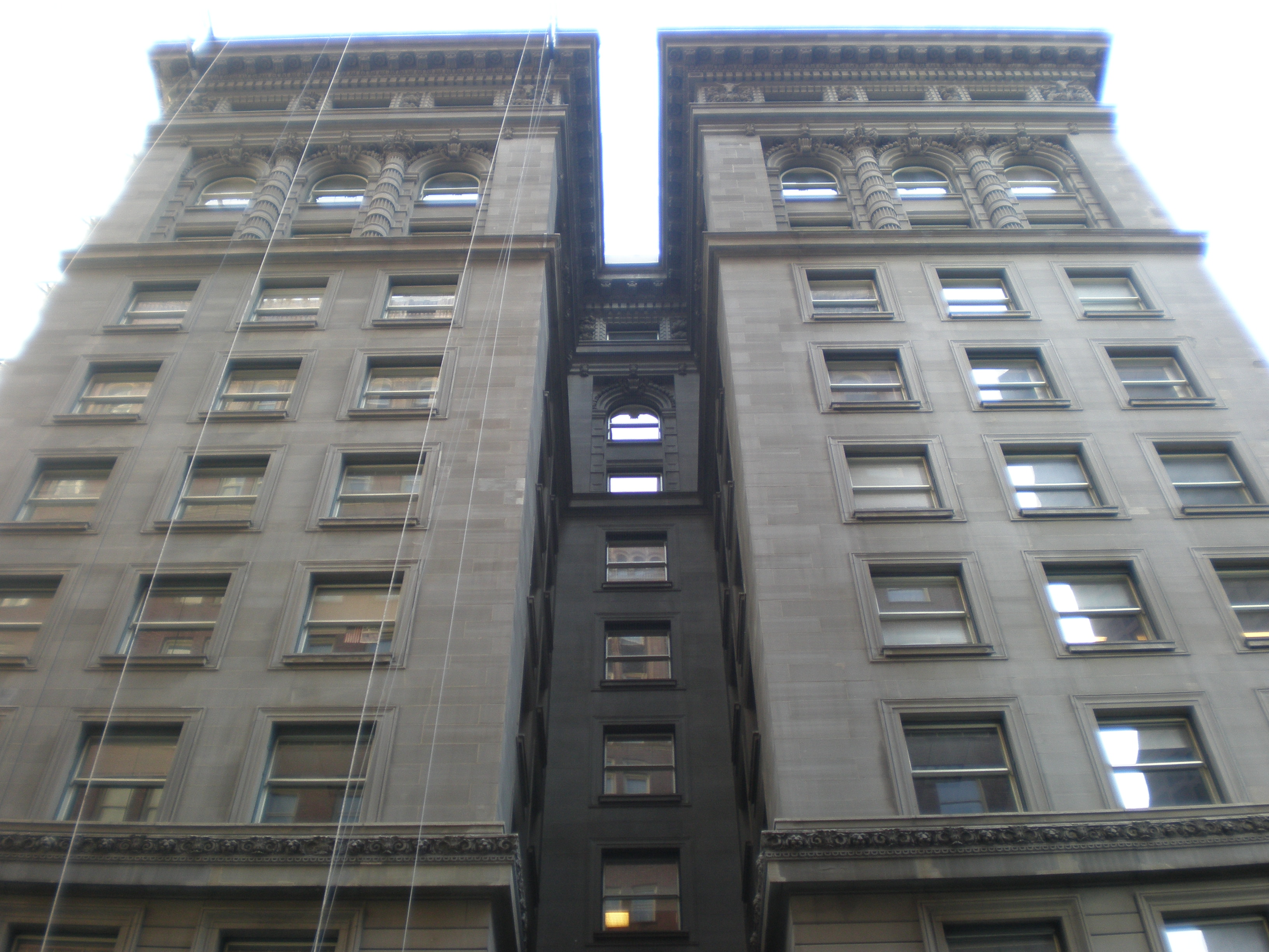 400 Montgomery Street in San Francisco.